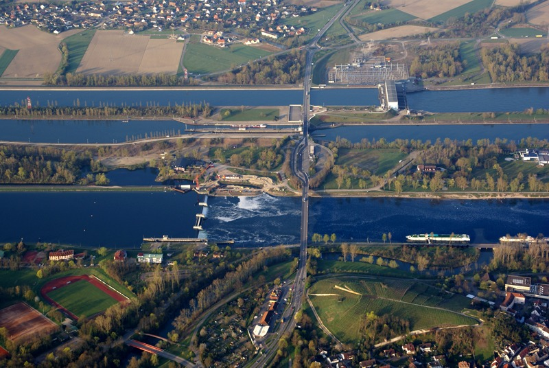 Aerial photo of Oberrhein bei Breisach. The picture shows the border with France, in the foreground the Rhine with a lock, and in the background the Rheinseitenkanal